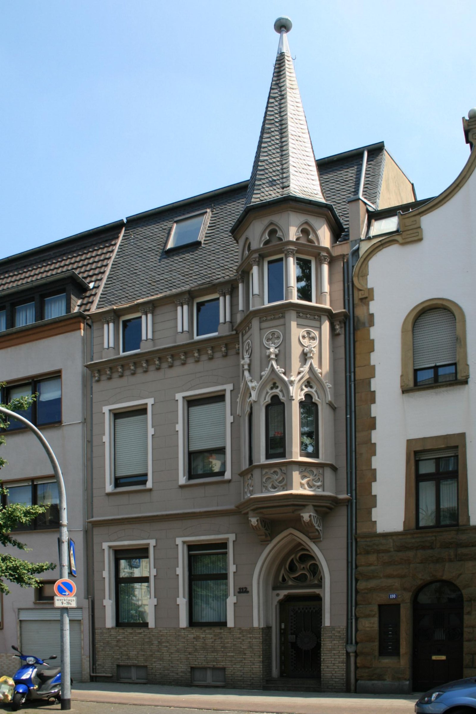 Cultural heritage monument No. B 089 in Mönchengladbach